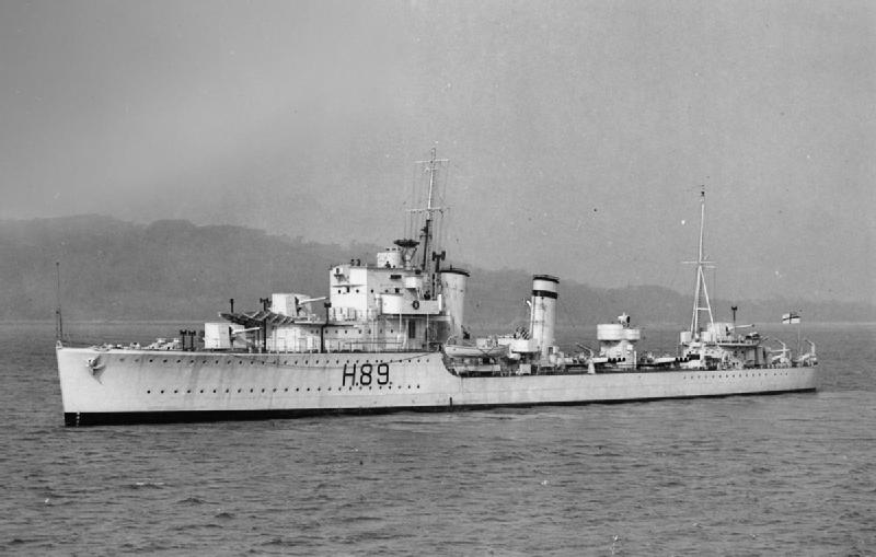 HMS Grafton (H89) underway.